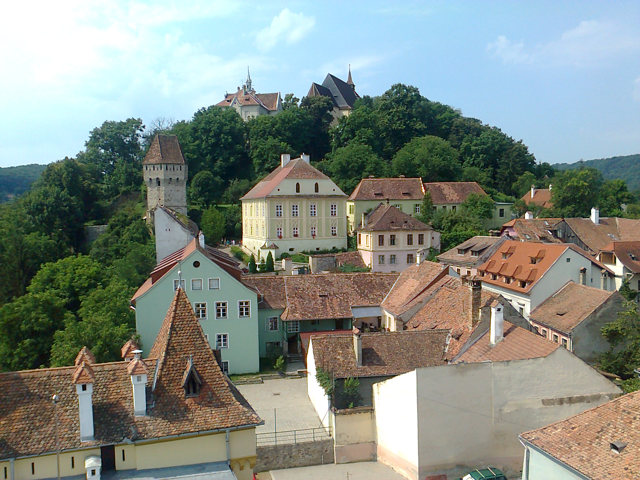 View of Sighisoara (Romania)